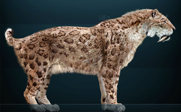 Graphical reconstruction of the Smilodon fatalis based on bone structure and paleontological texts